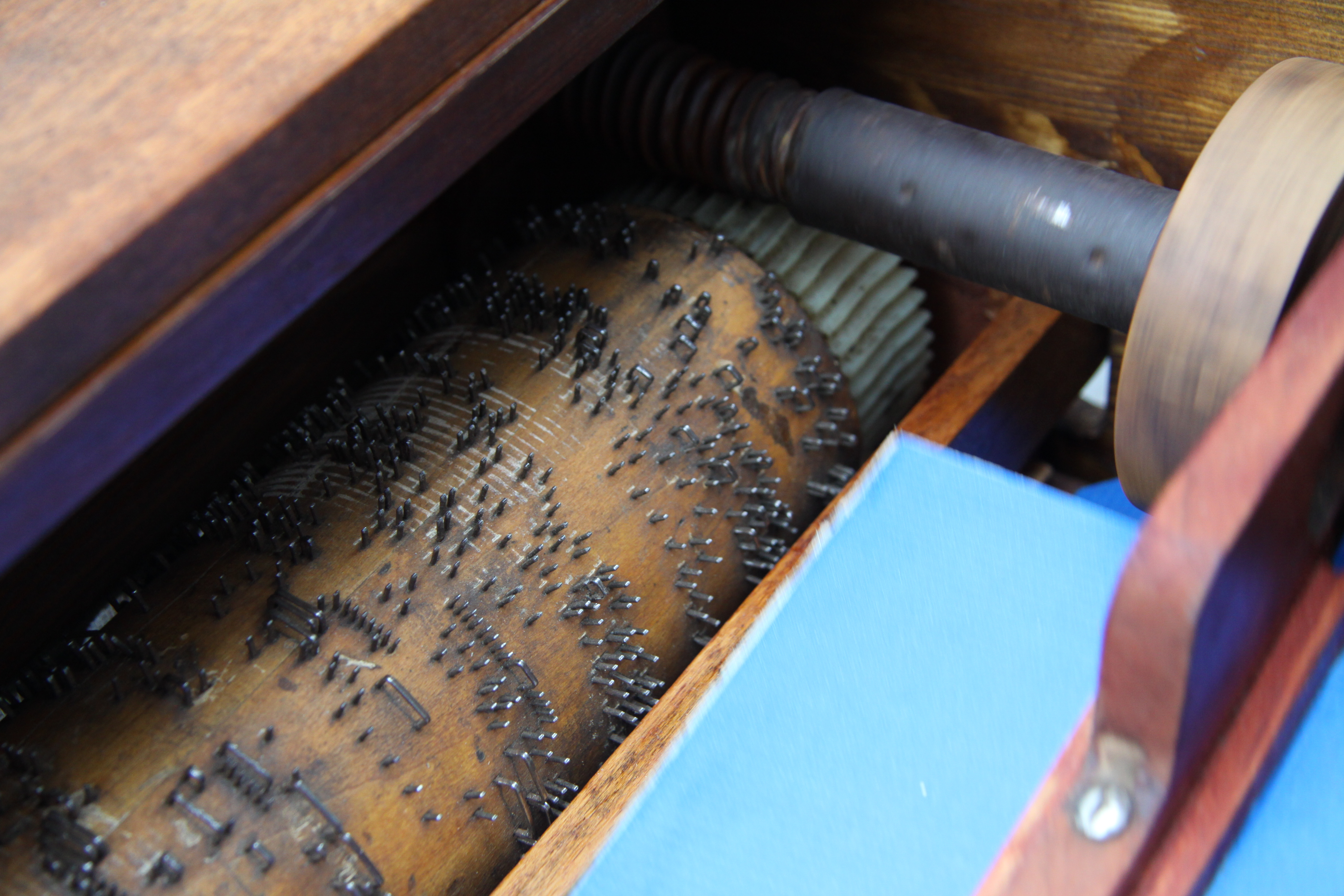 Barel organ in Pisek during town celebration "Dotkni se Písku" in 2011, Czech Republic - Google Maps - Google Earth